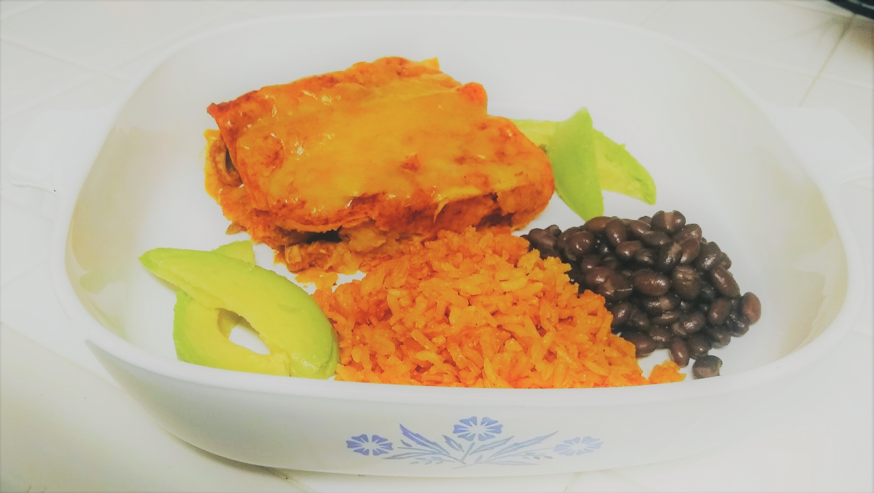 Chicken enchiladas made with red sauce, diced green chilis, cheddar cheese, plated with red rice, black beans, and avocado.